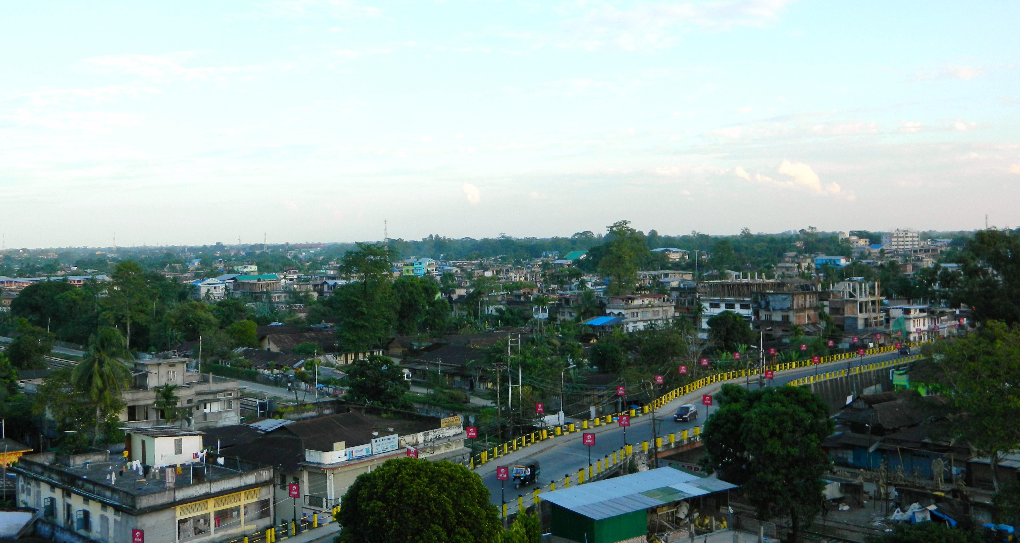 A bird's eye view of Dibrugarh city